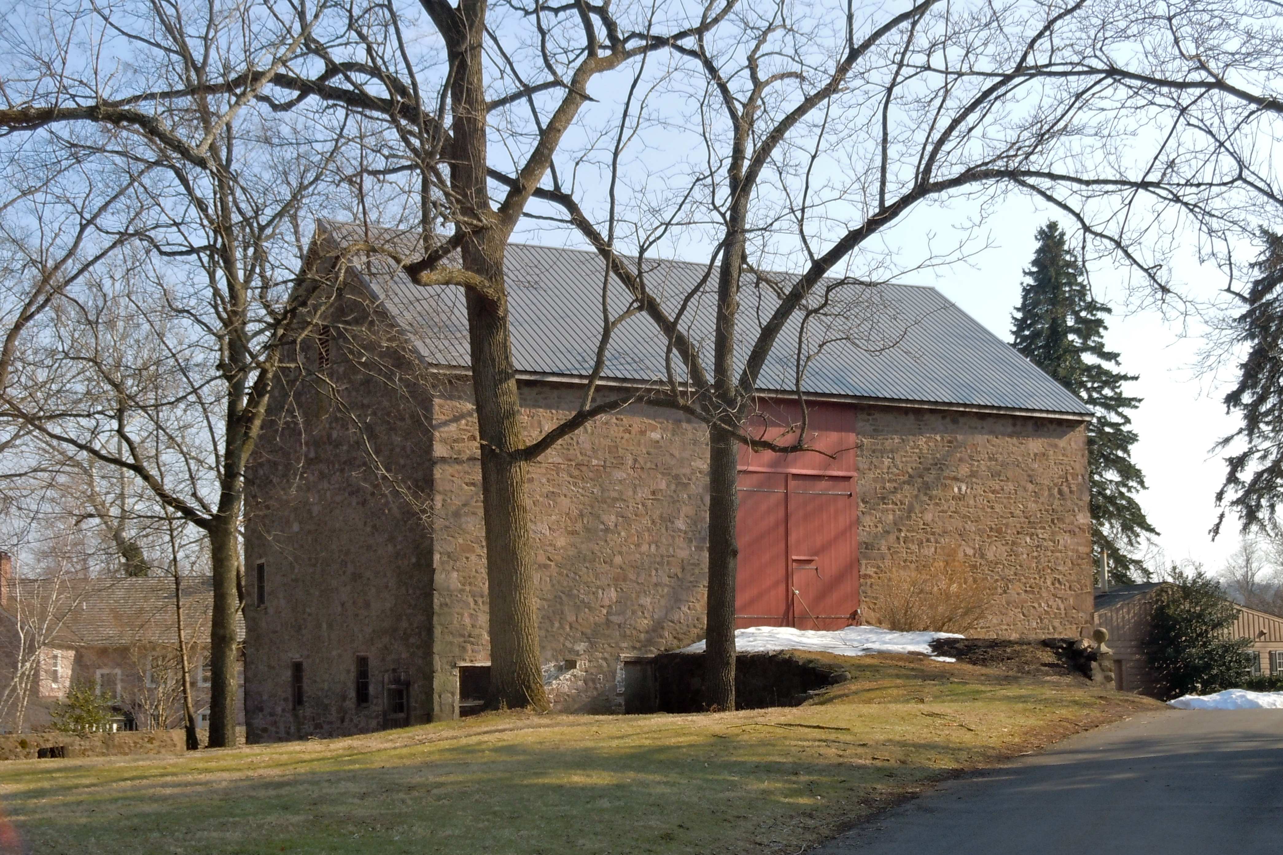 Barn at Matthias Pennypacker Farm, which has been listedon the NRHP since December 27, 1977. Located south of Phoenixville on White Horse Road (now at end of Mill Road - land between farm and Whitehorse road has been developed), Phoenixville, Chester County, Pennsylvania. Not so clear here, but the stone of the barn and house has a pinkish tint. Pennypackers are an old Pennsylvania family from near Valley Forge and at least one other NRHP site is a house of the family. Family includes General Galusha Pennypacker.